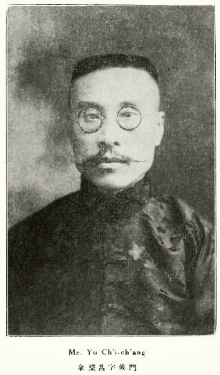 Yu Qichang, Jimen (born 1881)